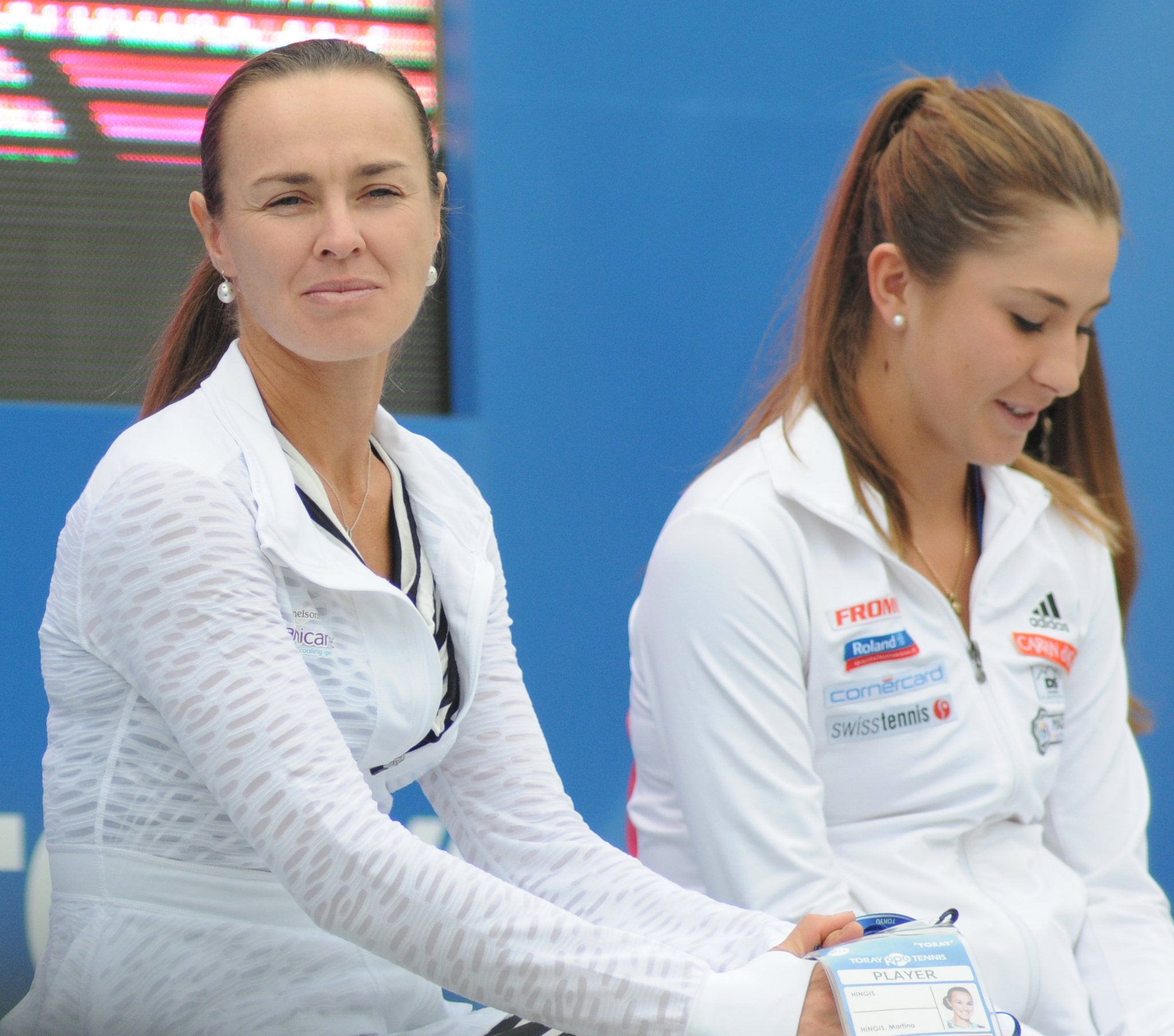 Martina Hingis and Belinda Bencic at the 2014 Toray Pan Pacific Open